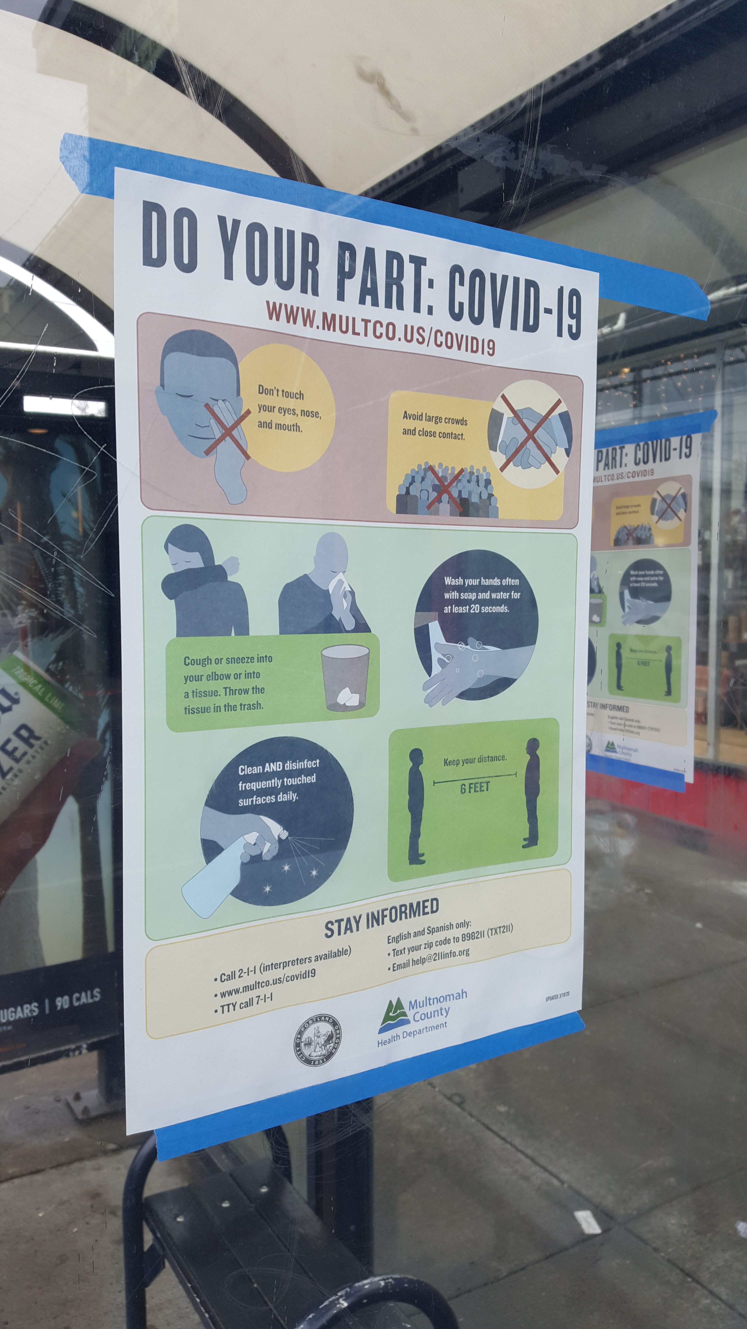 Portland, Oregon during the coronavirus pandemic, March 2020 - Sign at TriMet bus stop